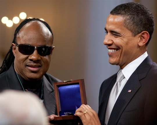 President Barack Obama presents Stevie Wonder with the Gershwin Award for Lifetime Achievement in a celebration in the East Room of the White House.